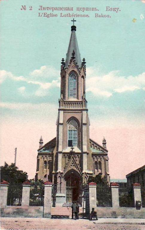 Azerbaijan, Baku, Lutheran Church. Early 20th century